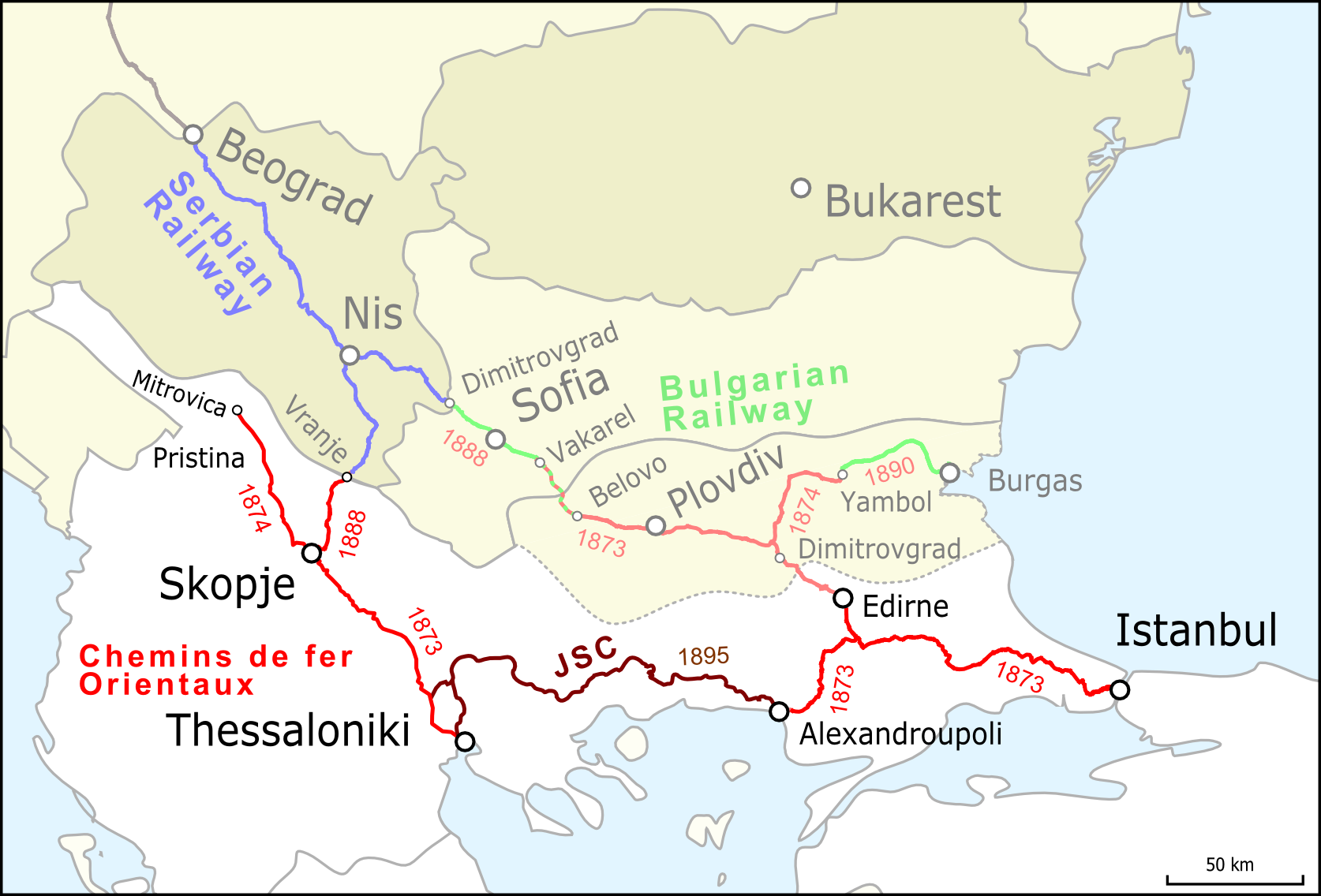 Concept of the strategic Jonction Salonique–Constantinople railway. English caption